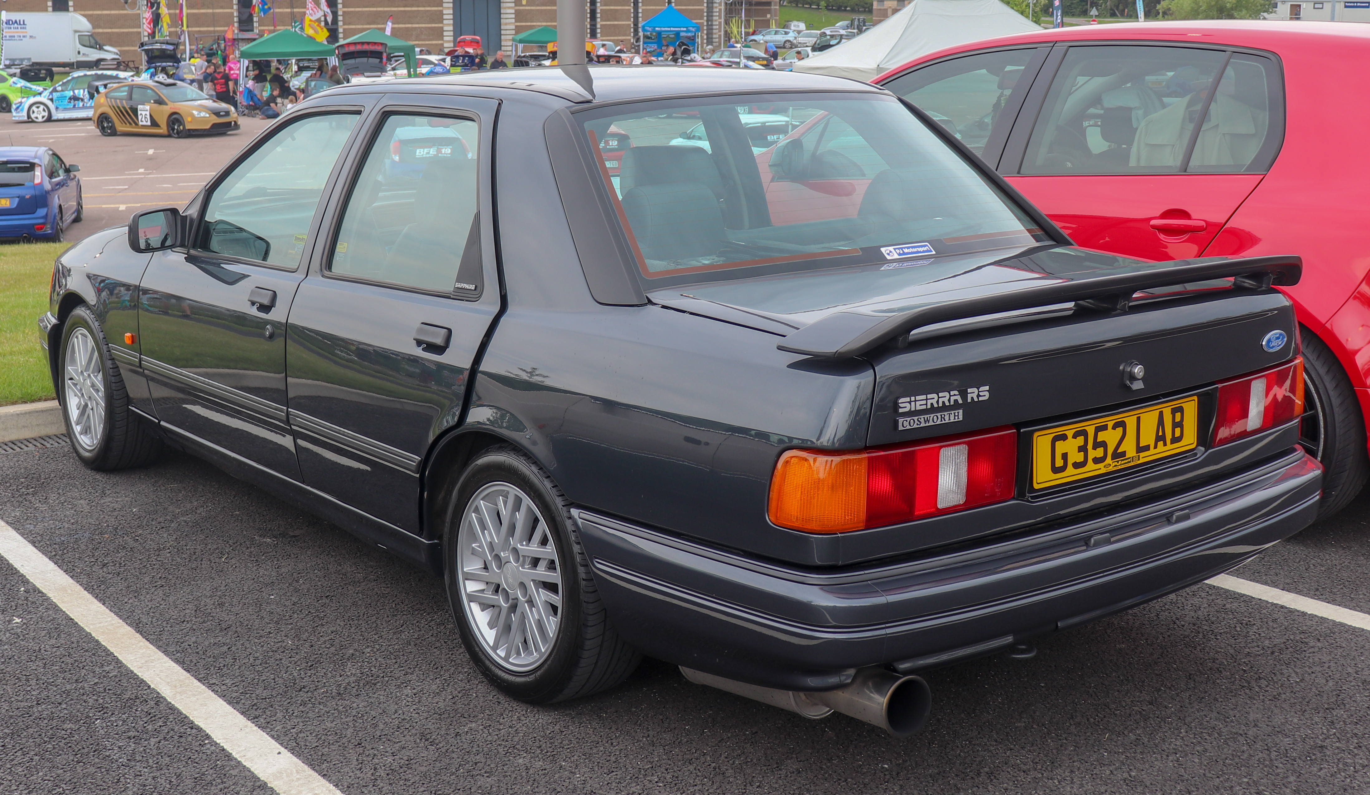 1990 Ford Sierra Sapphire RS Cosworth 2.0 Rear Taken at the British Motor Museum, Gaydon